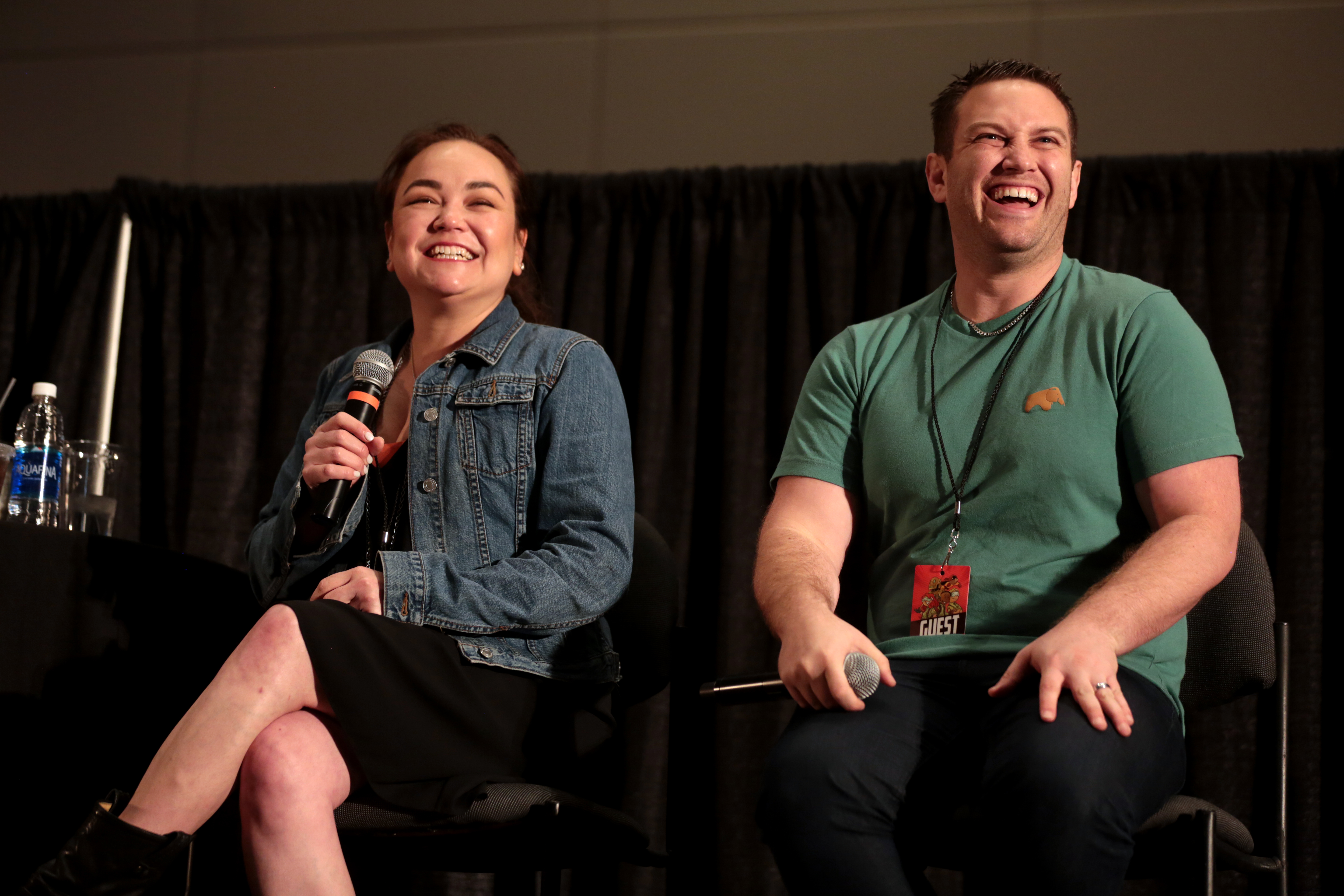 Trina Nishimura and Bryce Papenbrook speaking at the 2018 Phoenix Comic Fest at the Phoenix Convention Center in Phoenix, Arizona.